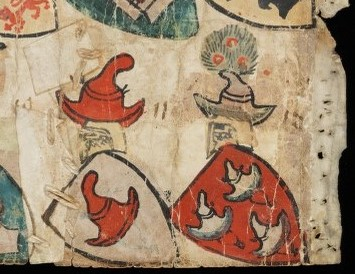 Zürcher Wappenrolle